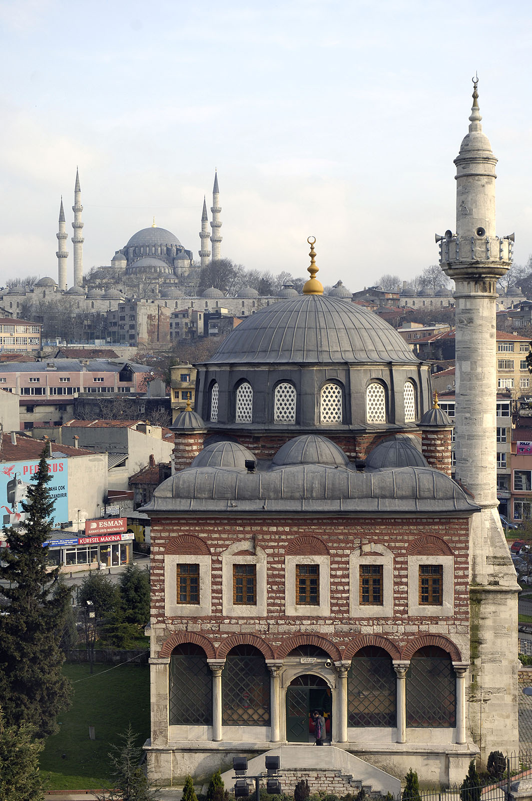 The Şebsafa Kadın Mosque dates from 1787 and was built by Fatma Şebsafa Kadın, one of the women in the harem of Abdül Hamit I. This is a mosque she had built. on the hill the Süleymaniye Mosque.